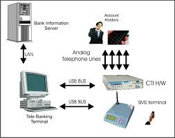 telebanking